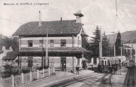 Ghirla railway station 2